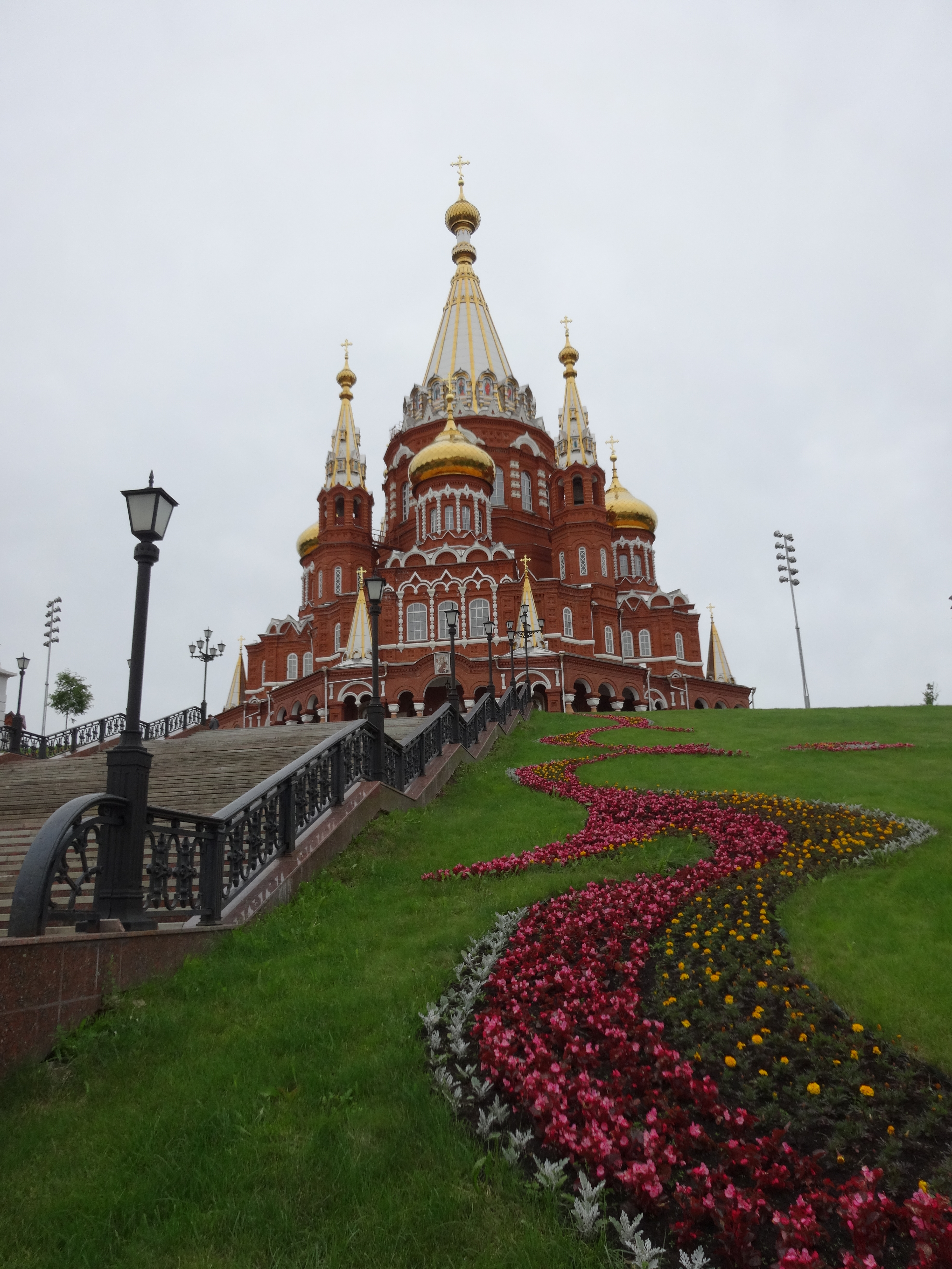 Saint Mikhailov Cathedral, Izhevsk, Udmurtia, Russia